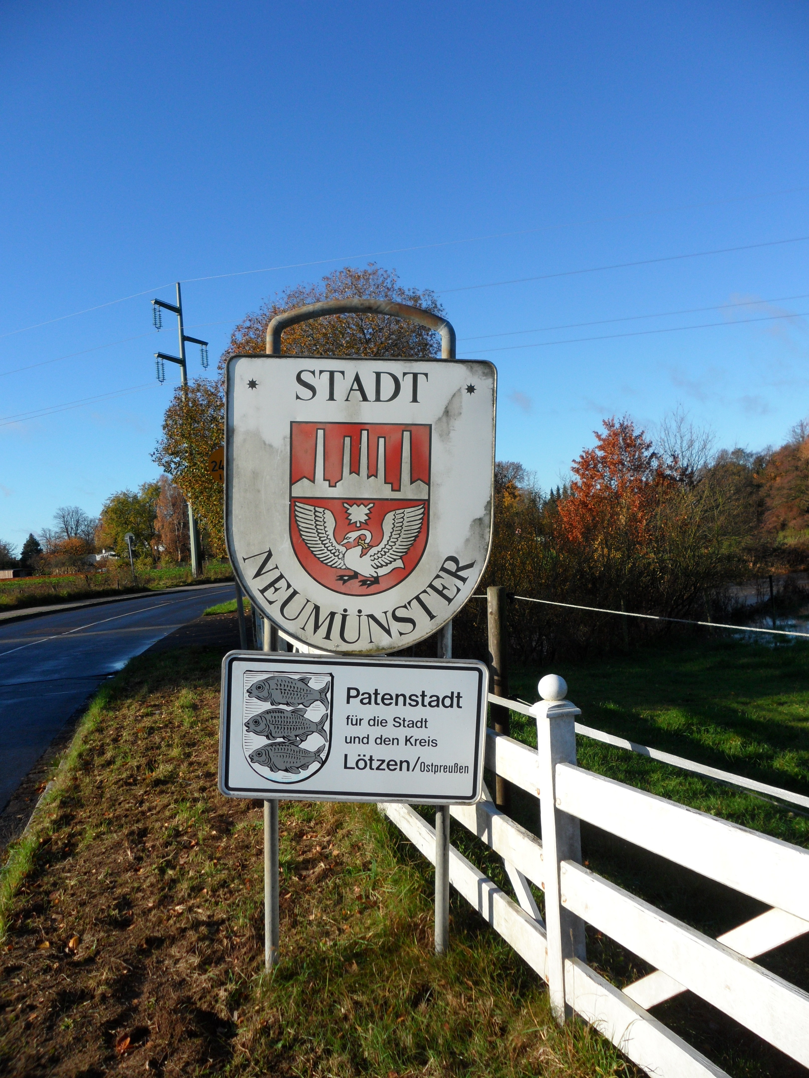 Emblem of the city Neumünster in Brachenfeld at the bridge over river Schwale